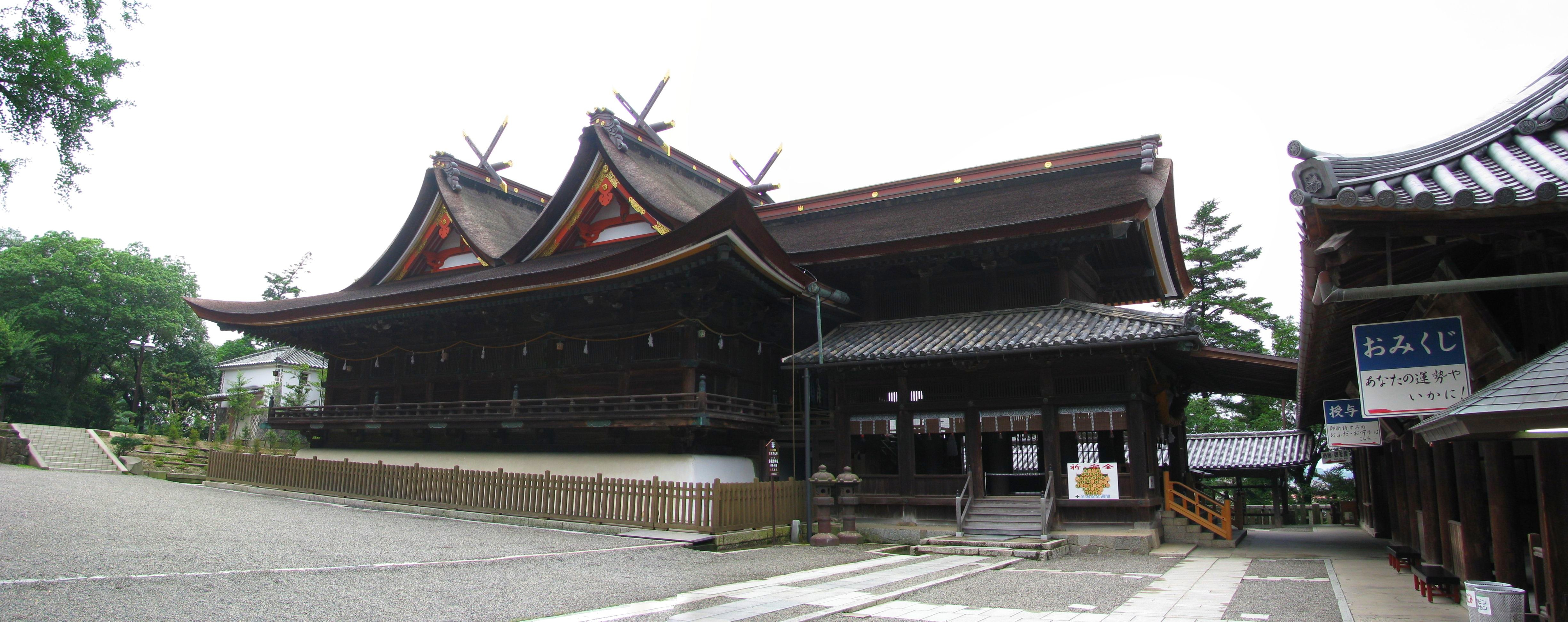 The Kibitsuhiko jinja is Shinto shrine in Kita-ku, Okayama, Okayama Prefecture, Japan.